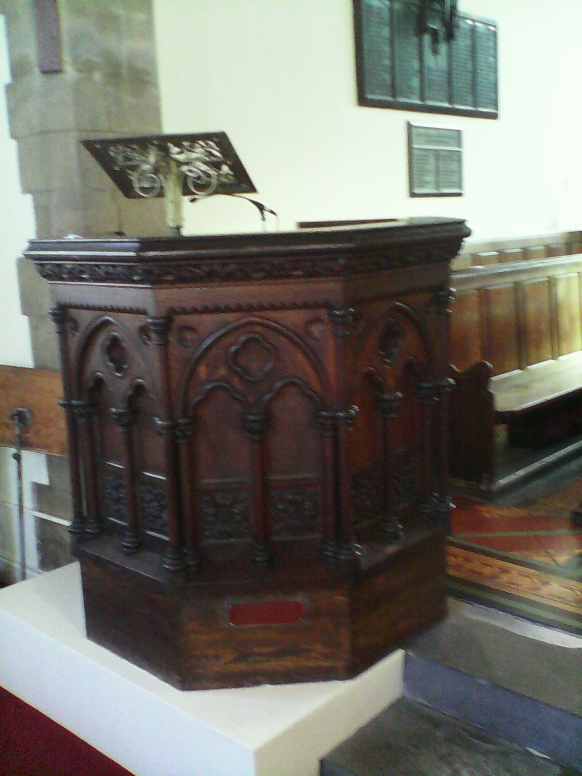 St Edward's church pulpit, formerly belonged to the now-demolished All Souls Chapel, Cardiff Bay.